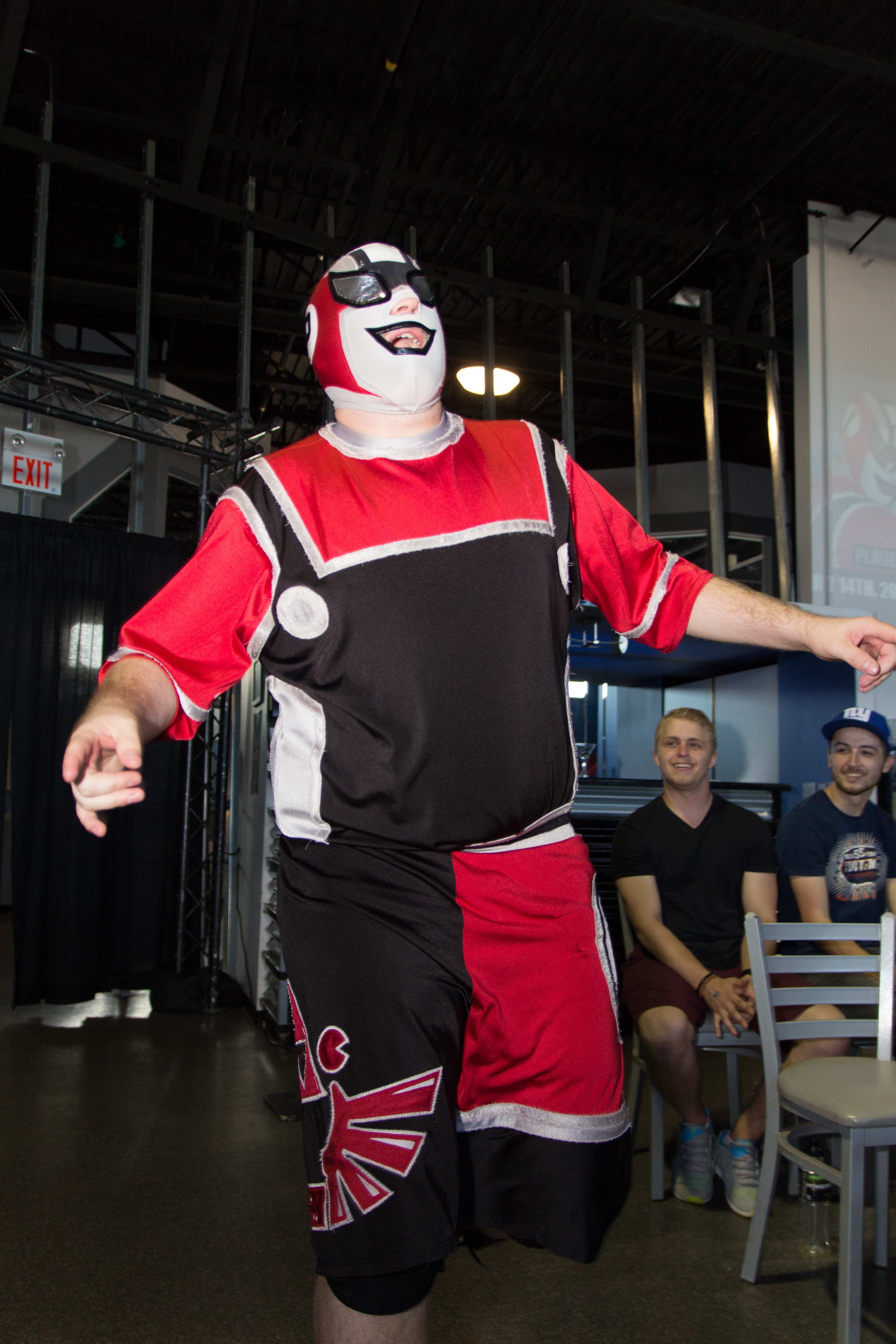 Independent wrestler Player Uno making his ring entrance at Smash Wrestling's Redemption in Toronto, ON